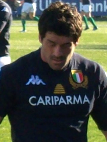 The Italian rugby union player Andrea Masi warming up during the Six Nations match vs Ireland in Rome